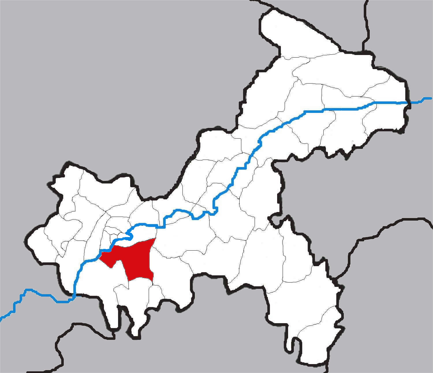 Administration maps of Chongqing, China